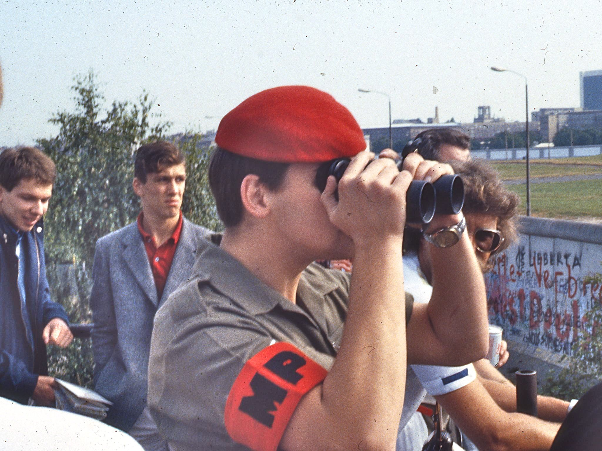 British military police officer looks across Berlin Wall using field glasses, with two civilians, 1984 Other information Photo by George Garrigues.